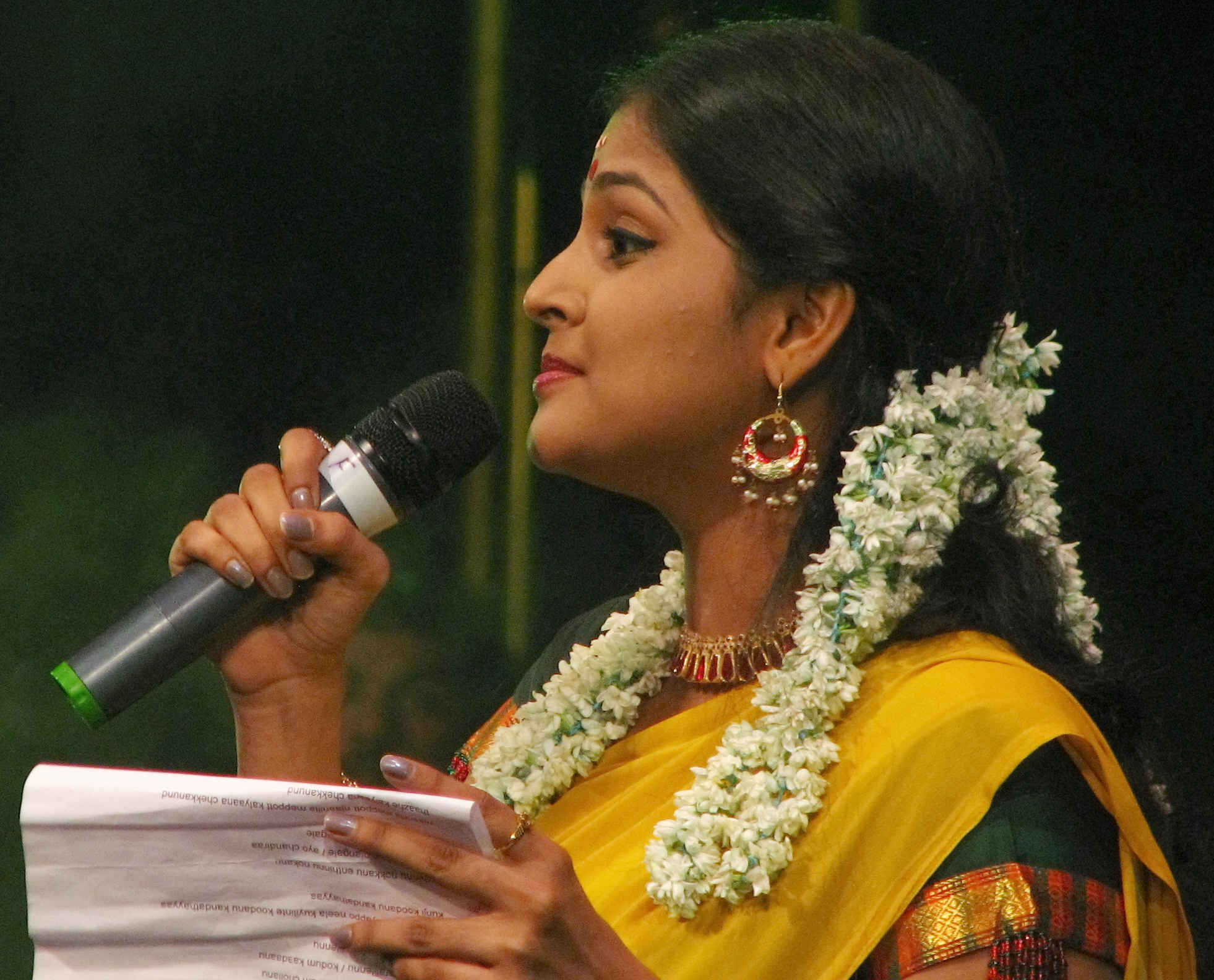 This media file is uploaded with Malayalam loves Wikimedia event - 2.